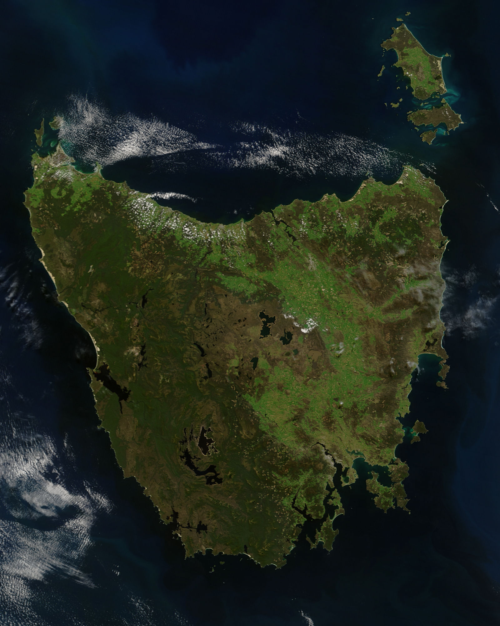 A true-colour satellite view of Tasmania, including Flinder's Island, taken in the spring of 2005. Description from NASA's Visible Earth website: Tasmania was emerald green with the flush of late spring when the Moderate Resolution Imaging Spectroradiometer (MODIS) on NASA’s Terra satellite captured this image on November 16, 2005. The western half of the island is covered with dense forest, which is darker green than grasslands in the east. Sitting below 40 degrees South, the island is the only part of Australia able to support a temperate rainforest. Above the northeast corner of Tasmania are Flinders Island (top), Cape Barren Island (center), and Clarke Island (closest to Tasmania). Tasmania is thought to have been a part of mainland Australia until the end of the last ice age 10,000 years ago when sea levels rose and made Tasmania into an island.